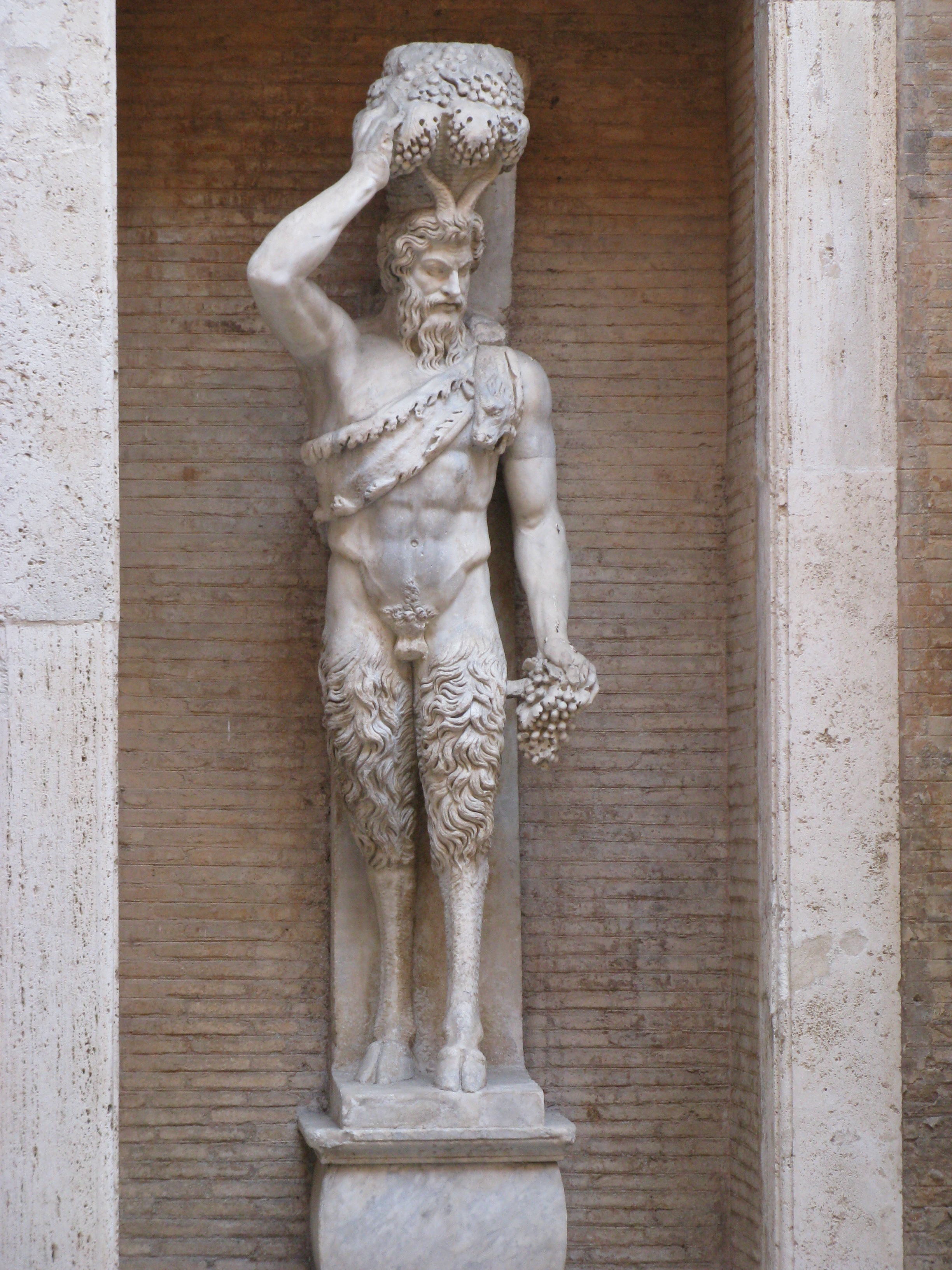 One of two statues known as Della Valle Satyrs at Musei Capitolini (Rome).